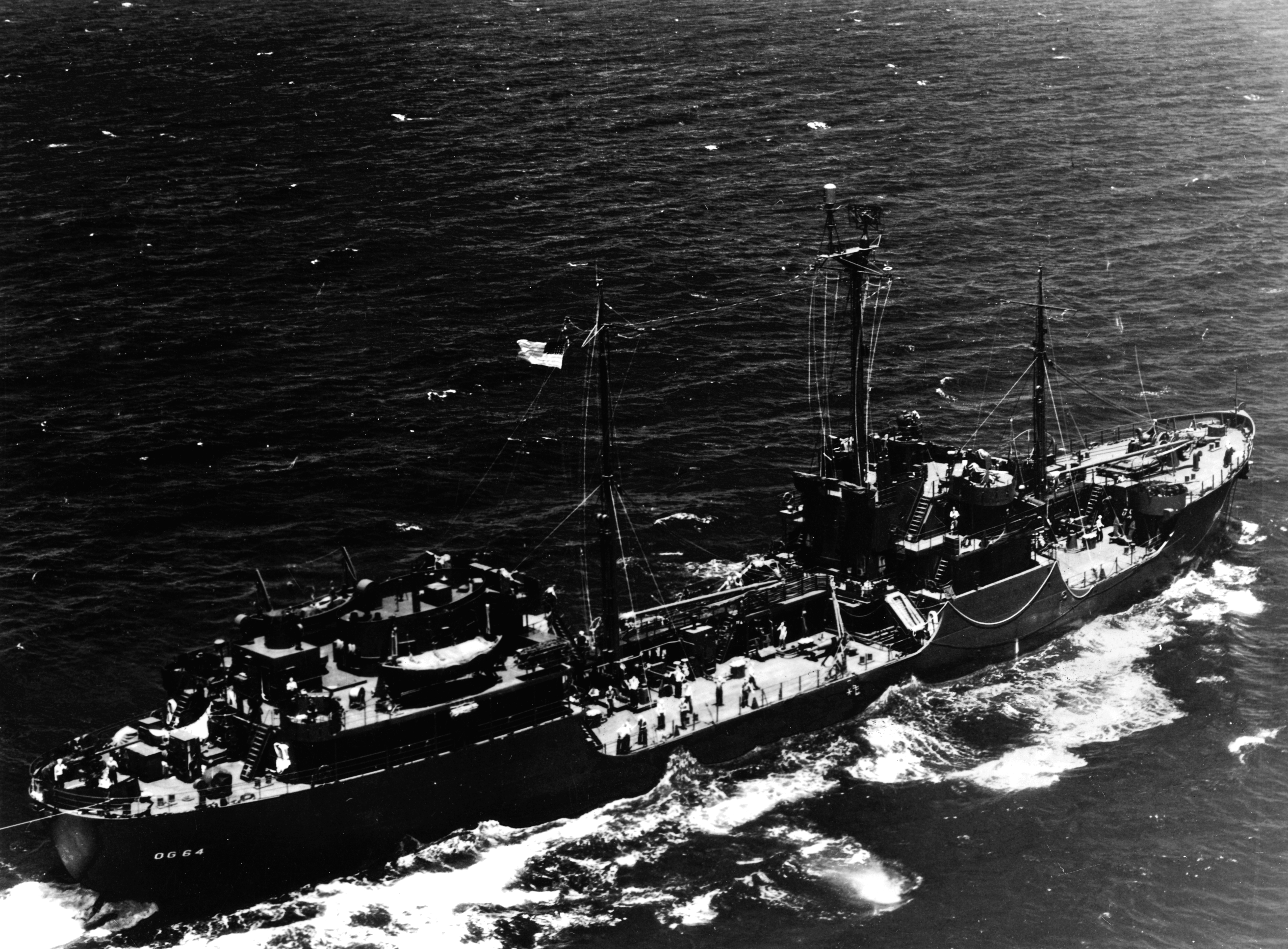 The U.S. Navy gasoline tanker USS Klickitat (AOG-64) underway at sea on 29 May 1946.